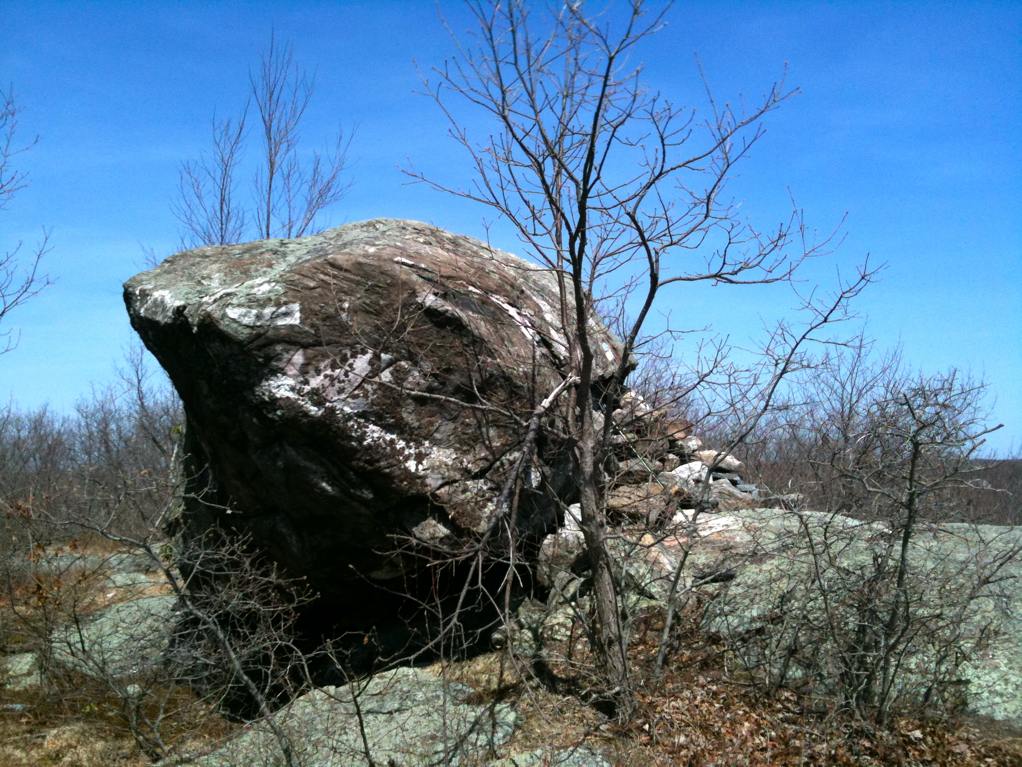 Beacon Cap -- glacial erratic boulder on high point (elevation 770 feet) on the Bethany, CT and Naugatuck, CT border. End of Beacon Cap spur trail of Naugatuck Blue-Blazed hiking trail.